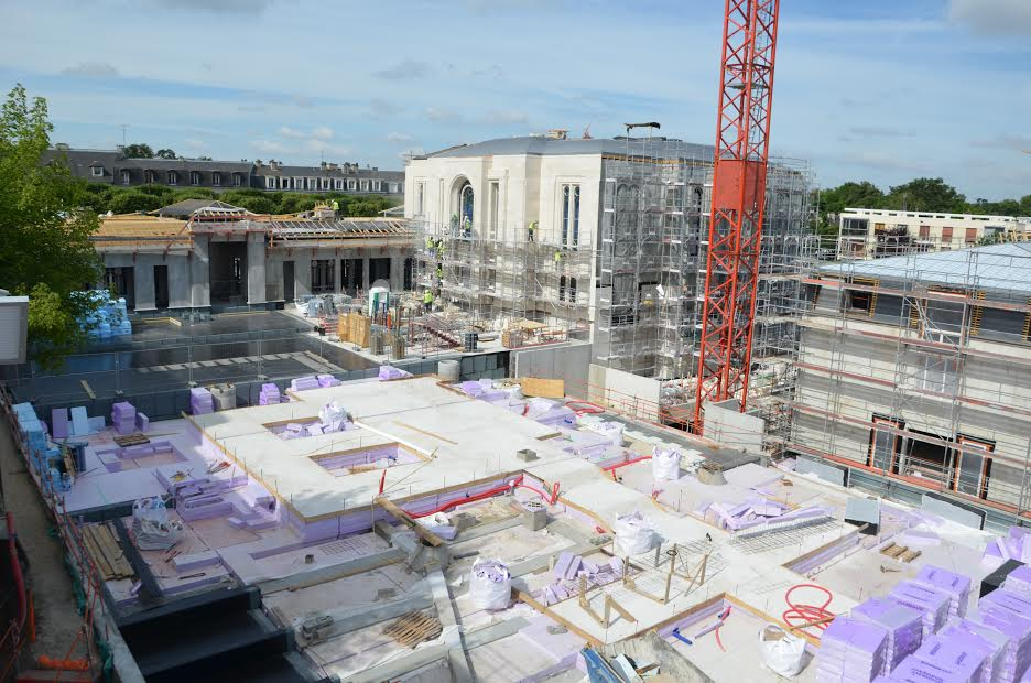 The Paris France Temple of The Church of Jesus Christ of Latter-day Saints, under construction